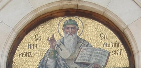 Temple-Monument "Alexander Nevski" Patriarchal Cathedral Church - western southern gate with lunette with mosaic icon of saint Hilarion of Meglen